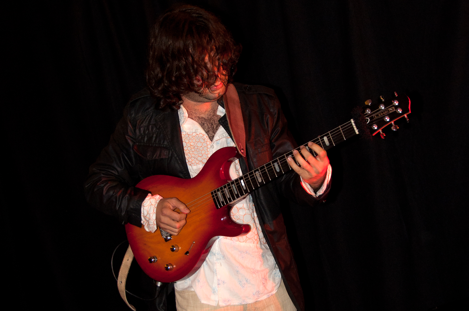 Emil Gemedjiev (guitar player of the german-bulgarian funk/fusion band GeeJay) - During the Gleis 9 concert in Walsrode, organized by the german music school Musikschule Nicolaus Walsrode